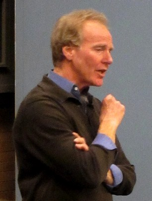 Peter Senge speaking with students' parents at Quest to Learn, a public school which uses a systems thinking approach to education. Manhattan, New York City, February 12, 2013.